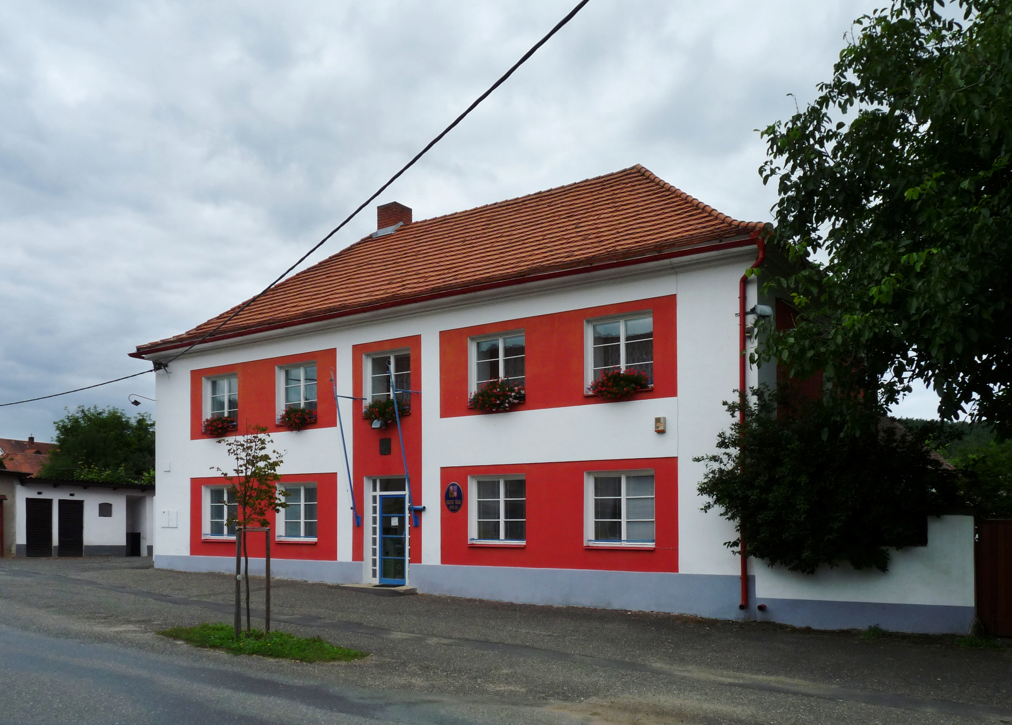 Municipality office / former synagogue in Drážkov, Příbram District, Central Bohemian Region, Czech Republic.